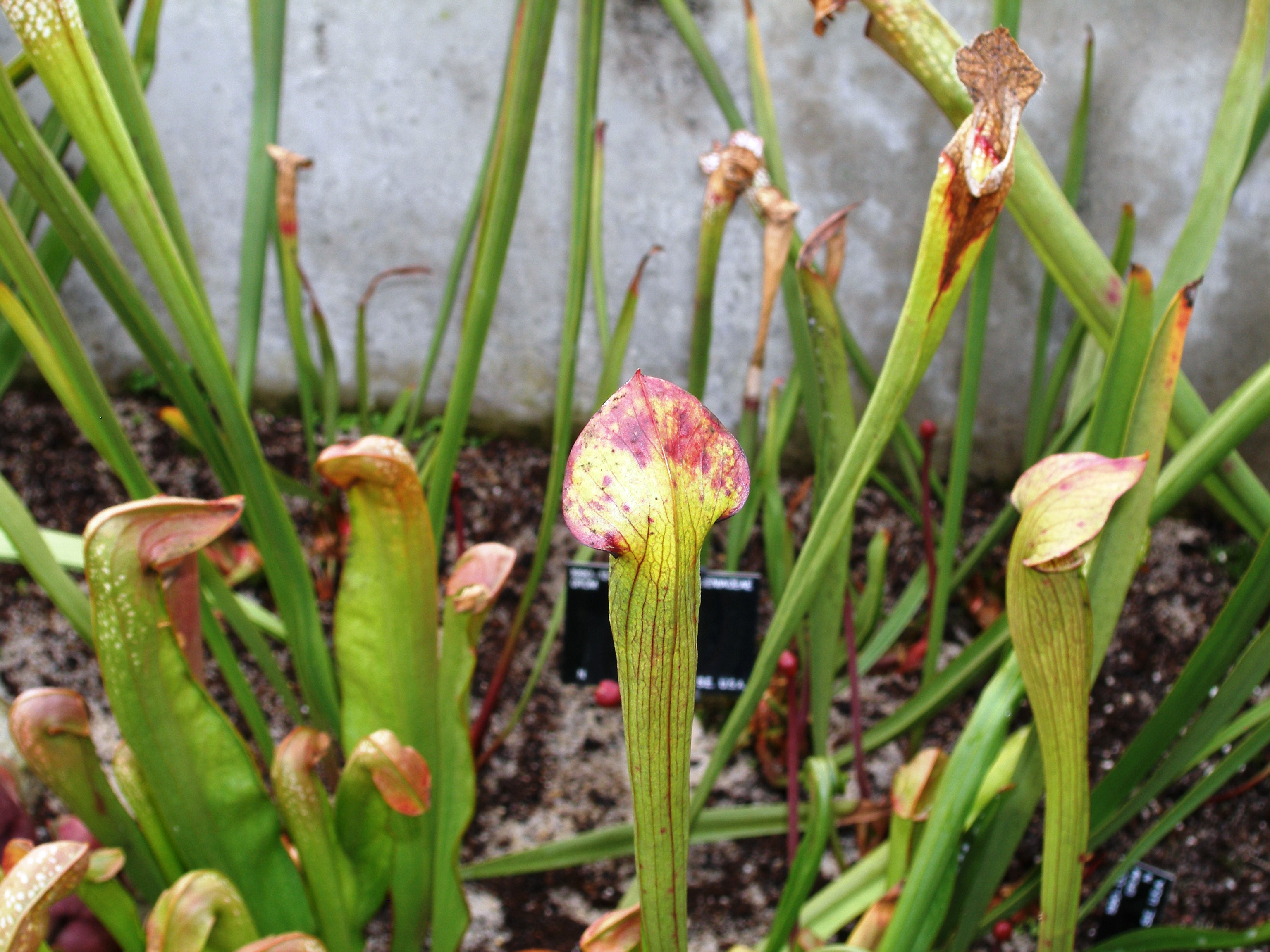 Specimen in cultivation at the Royal Botanic Gardens, Kew, United Kingdom.